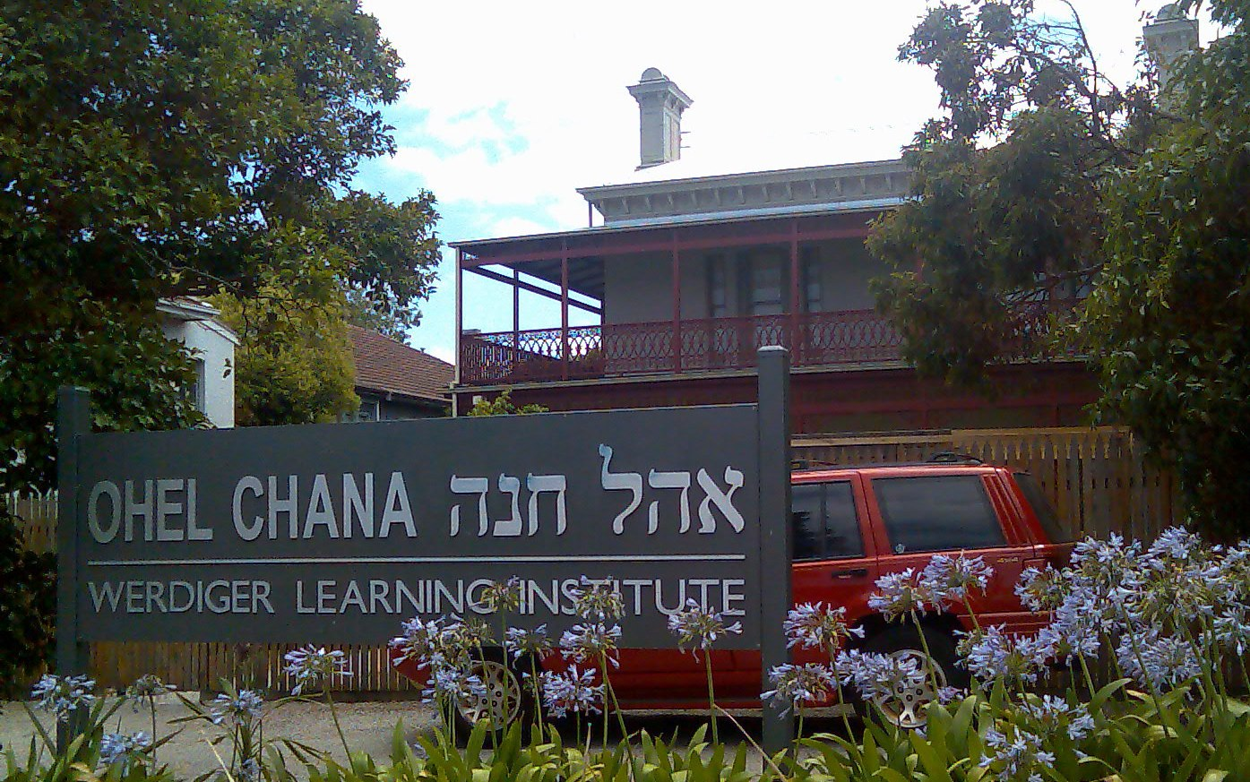 The Ohel Chana Seminary on Balaclava Road in Melbourne, Australia, copied from a personal photo on Wikipedia.